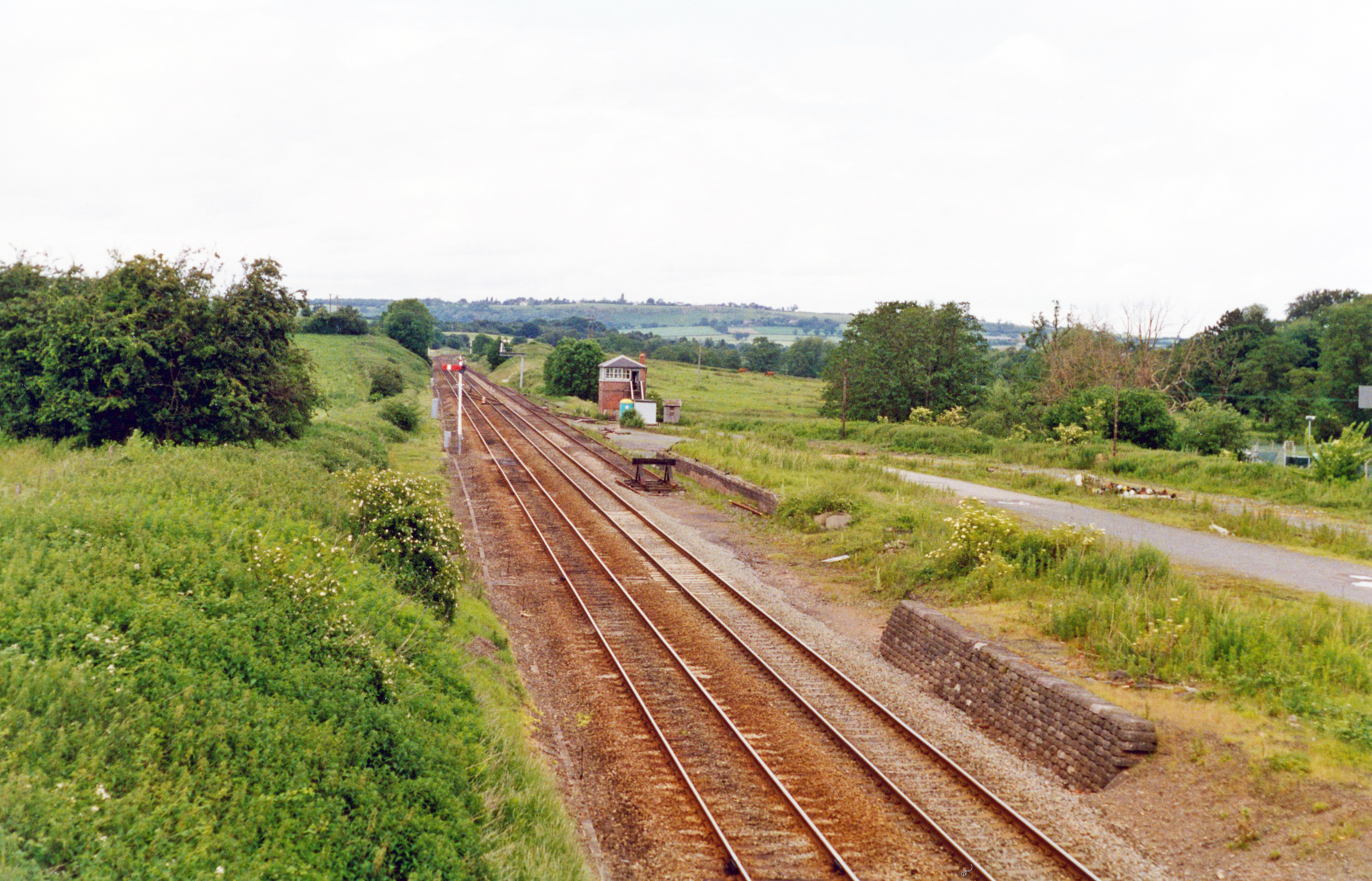 Site of Dorrington station, 1993. View northward, towards Shrewsbury: ex-GW&LNW Joint Hereford - Shrewsbury main line. The station closed to passengers 9/6/58, to goods 15/3/65, but the Marches Main Line flourishes.